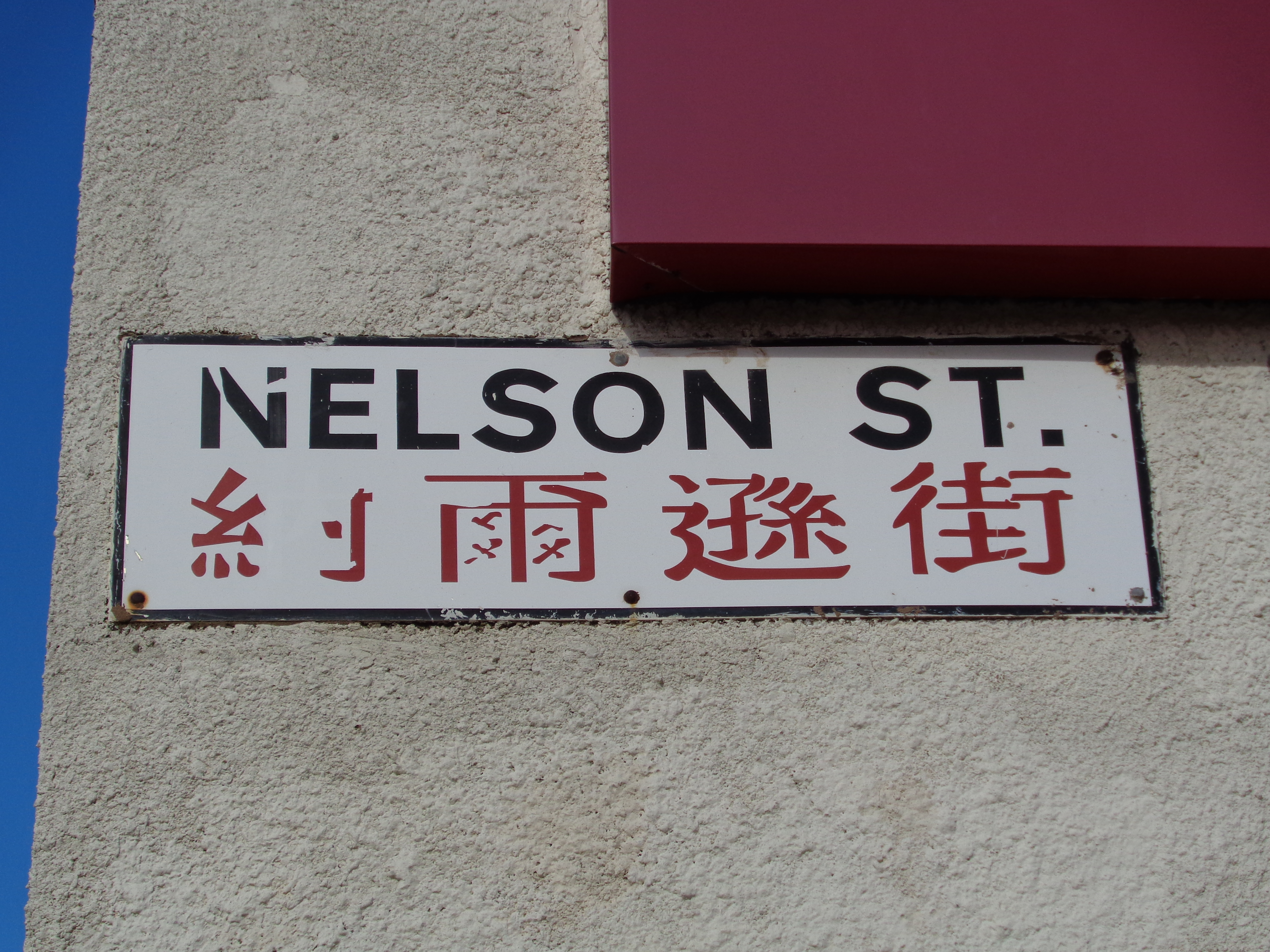 Nelson Street sign, Liverpool.